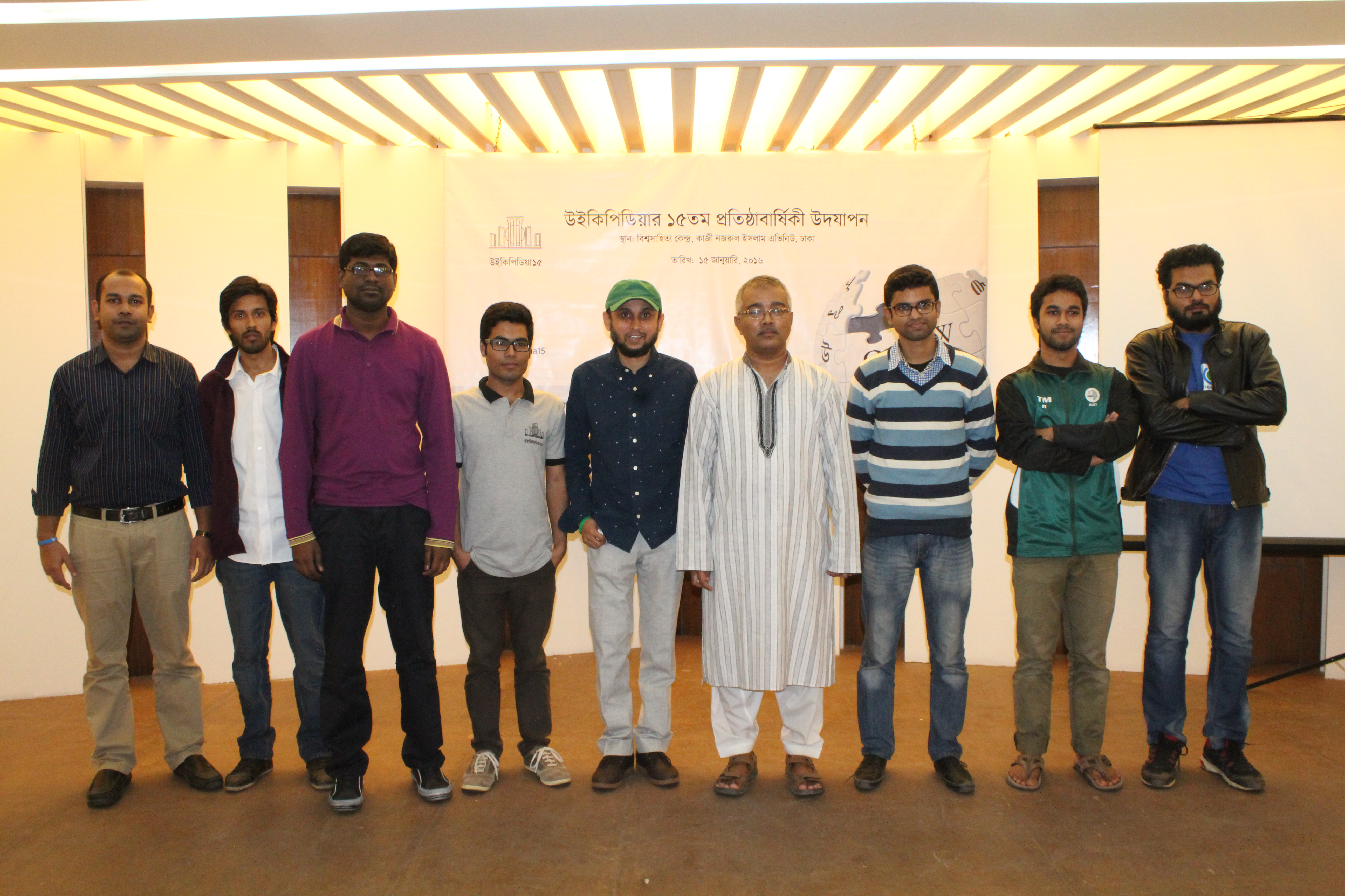 Wikipedia's 15 Birthday celebration in Bangladesh.